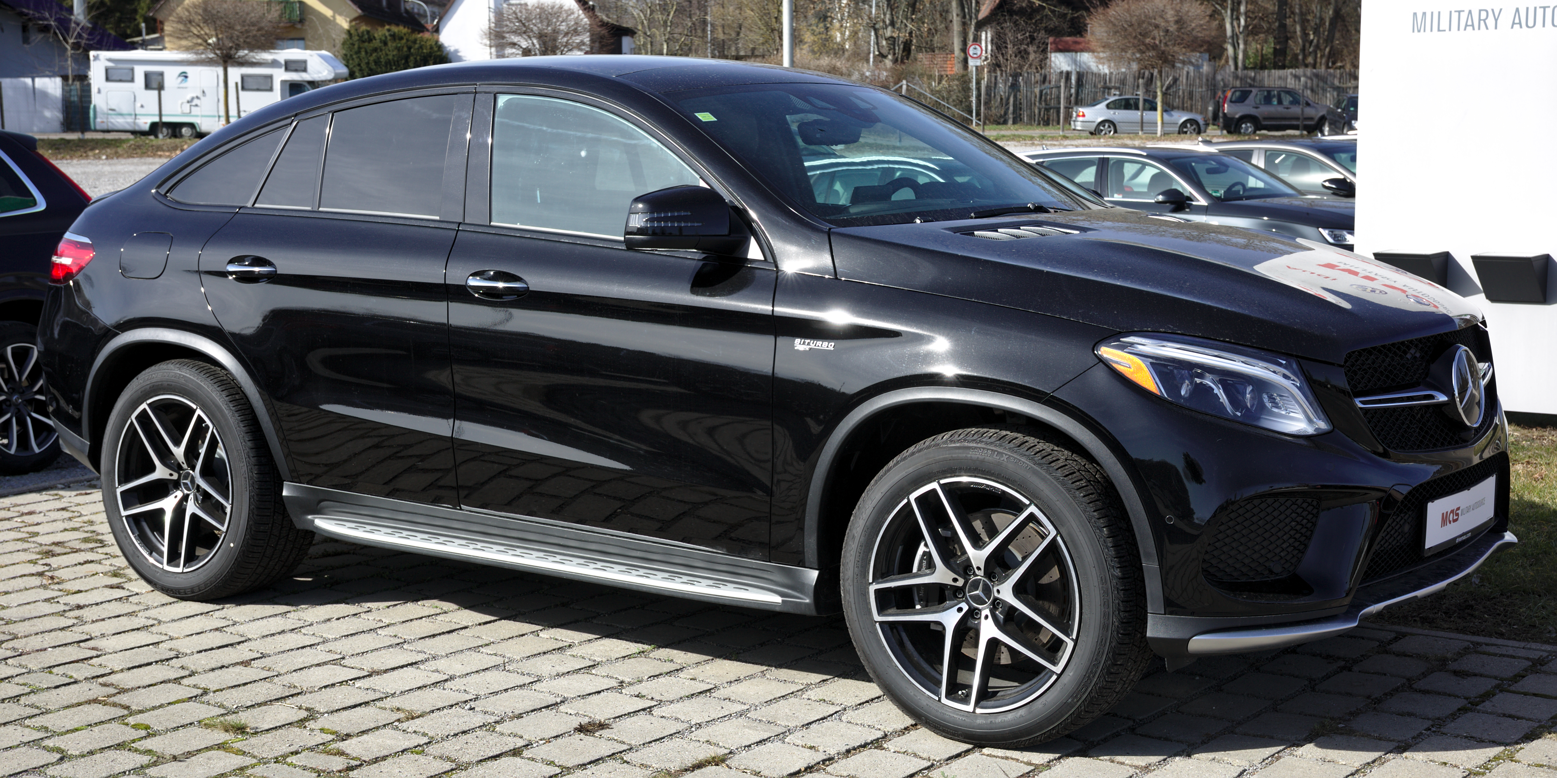 Mercedes-AMG GLE 43 Coupe in Stuttgart-Vaihingen